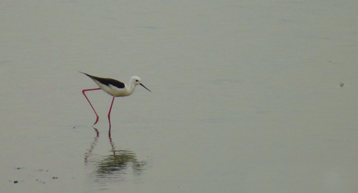 Black-winged Stilt or Common Stilt (Himantopus himantopus) at Singanallur Lake